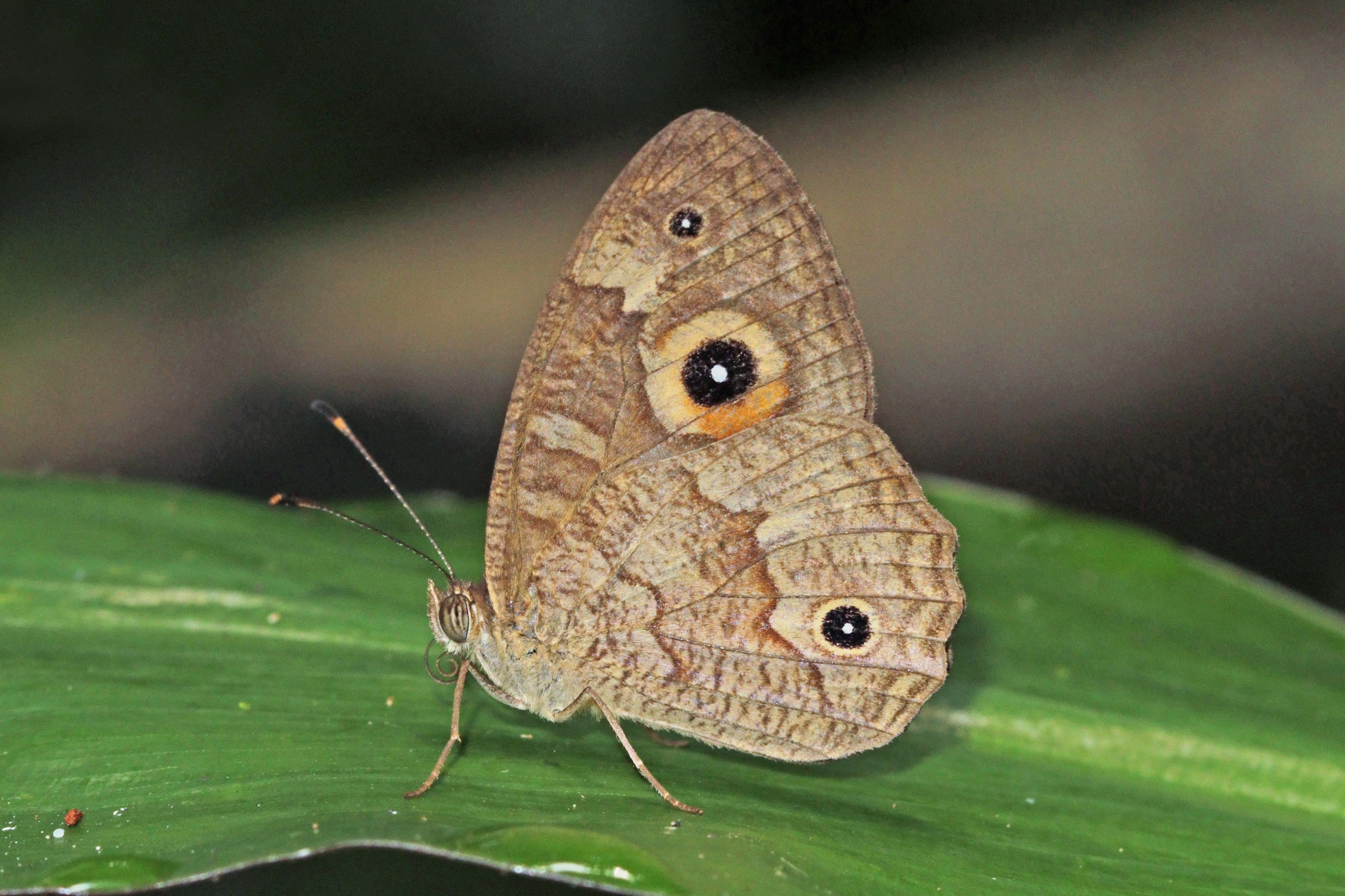 Heteropsis avaratra male, Montagne d'Ambre National Park. Identified by Dr David Lees